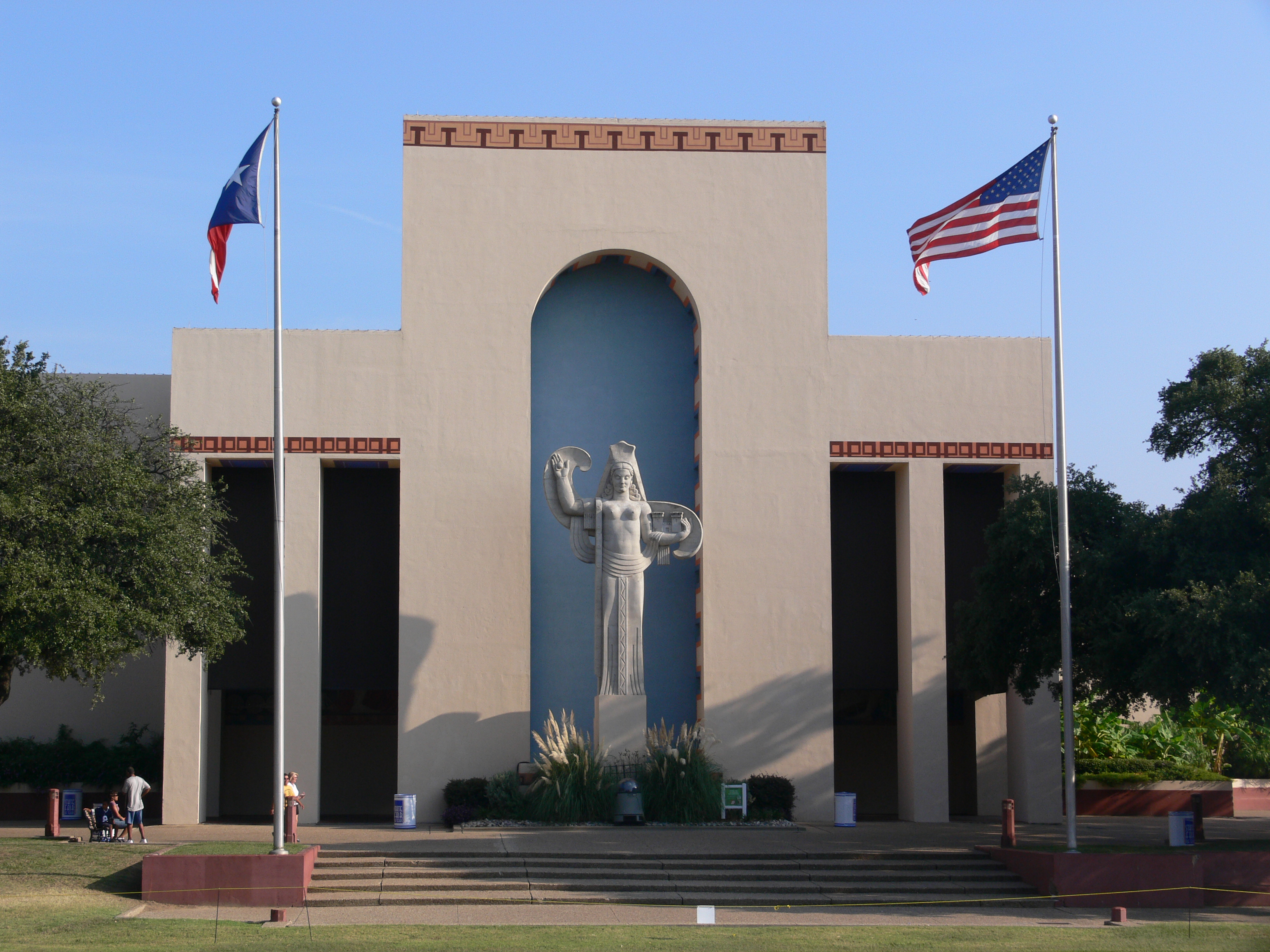 Fair Park, Dallas, Texas: view of one of the halls at the Esplenade, during the State Fair of Texas, 2008